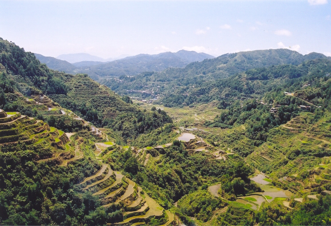 The famous rice terraces of the Philippine Cordillera near Banaue